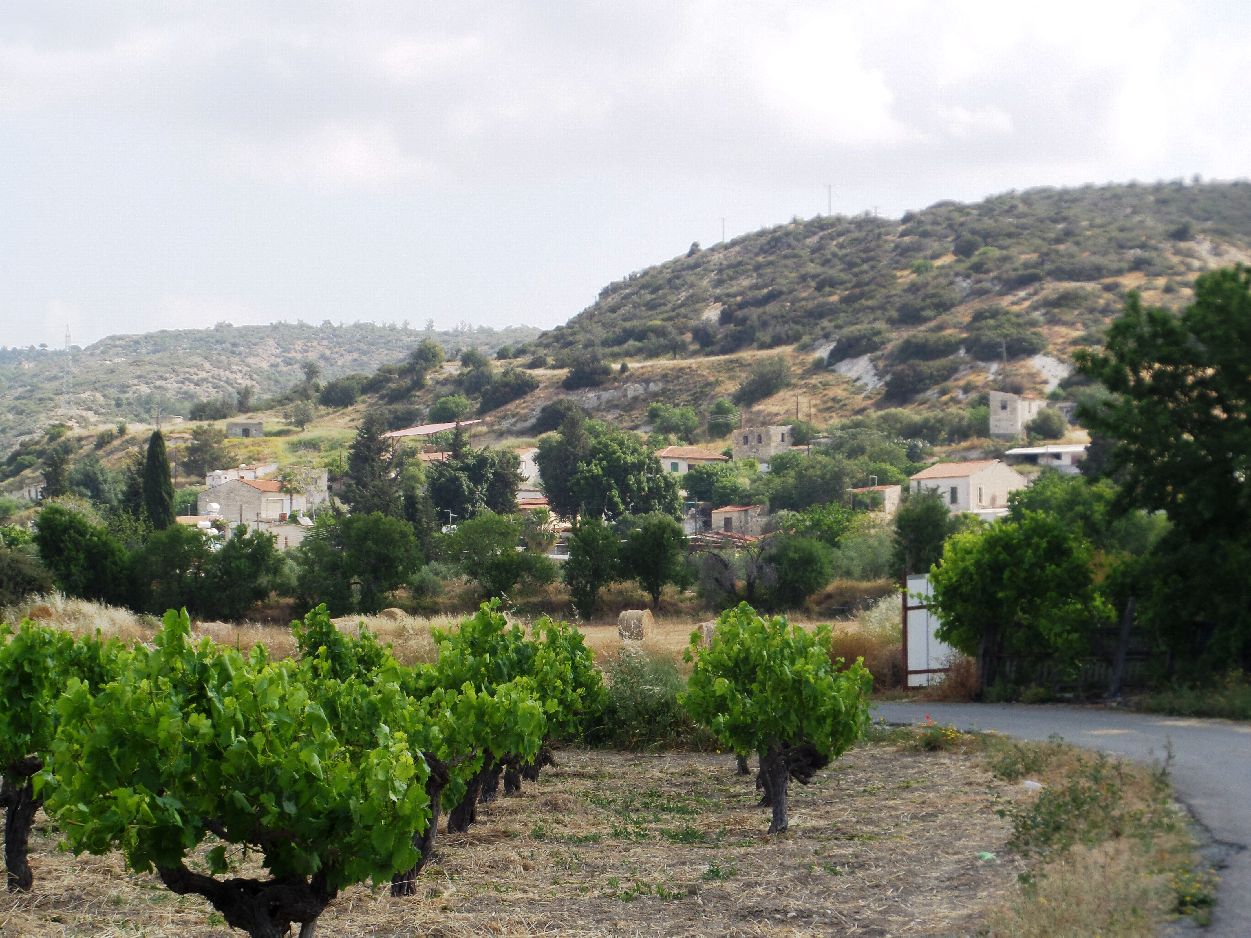 View of Alektora.